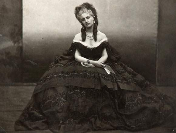 Countess de Castiglione , ca. 1856-60